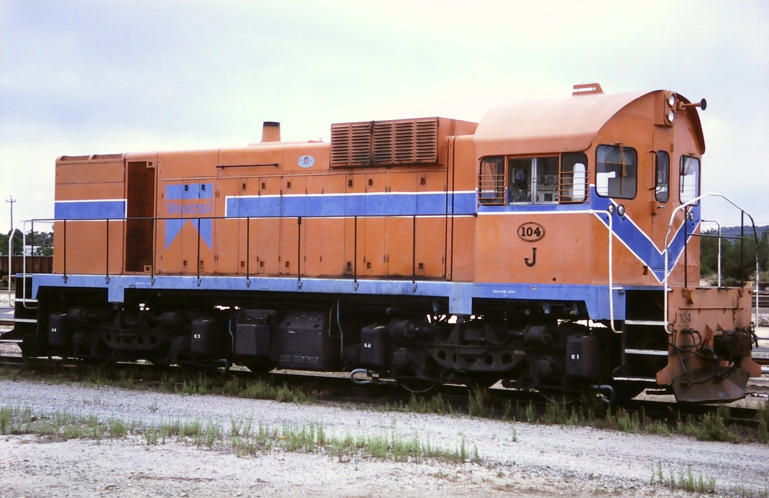 Portrait of Western Australian Government Railways (WAGR) J class diesel-electric locomotive no J104, in Westrail orange and blue livery, at Forrestfield Yard, Western Australia.Kodachrome slide converted by Kaiser Baas Photo Maker Pro into a digital image.